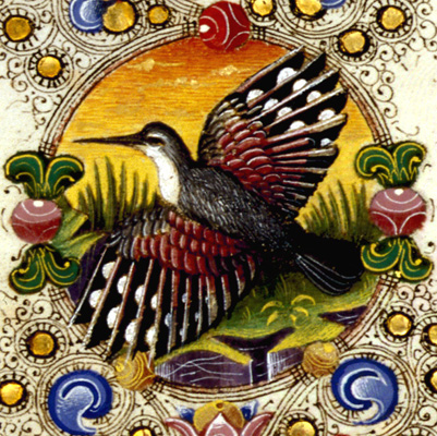 CRIVELLI, Taddeo Bible of Borso d'Este Illumination on parchment Biblioteca Estense, Modena